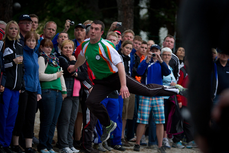 EK 2012